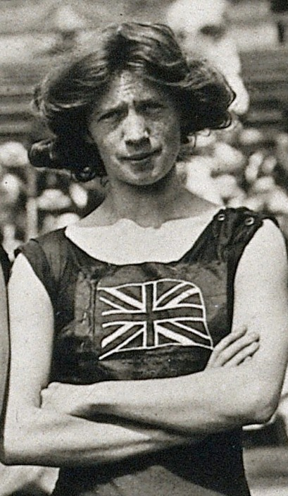 The victorious English 400 m. women's relay swimming team at the Stockholm Olympic Games. Postcard, 1912: Belle Moore, Jennie Fletcher, Annie Speirs, Irene Steer. ID: [1] [2]